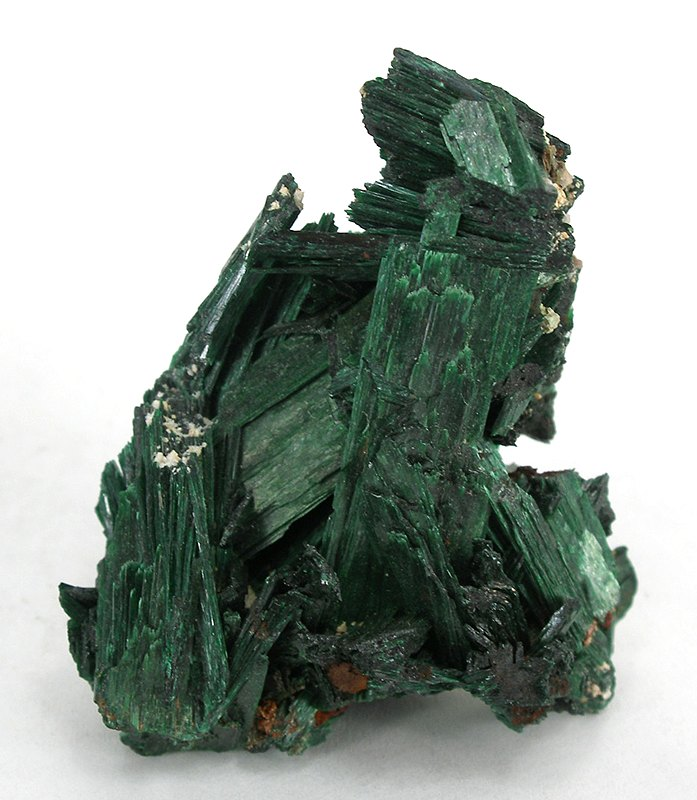 Szenicsite Locality: Jardinera No. 1 Mine, Inca de Oro, Chañaral Province, Atacama Region, Chile (Locality at ) Size: miniature, 4.6 x 3.9 x 2.1 cm Szenicsite It is truly amazing to discover a beautiful new mineral species in today's world, in crystals that can reach several centimeters. This is exactly what happened in the early 1990s with the discovery and naming of Szenicsite, a one-locality, very rare, copper molybdate with ELECTRIC GREEN COLOR. This was the ONLY major find of the species, and not even a trickle of good specimens followed the first few pockets collected by Terry Szenics. All good specimens came through him, and he was close to Steve Neely and sold him a great one for his miniatures collection in 1999 (after which Steve dropped miniatures)....Steve then traded it to Bryan Lees, who sold it to Joe Freilich (whose collection was liquidated at Sotheby's in January of 2002), from whose auction it went back to Bryan Lees and on to Ed David. I just found out all this informaiton from Dr. Neely on updating the piece to the site, small world that it is! Ed only had the Freilich history noted. Long circle with 3 very prominent and smart collectors owning it and then selling it for various reasons. There are bigger speicmens out there, but VERY few with better quality of crystals . This is top tier, with elongated, individual crystals and full terminations. Most specimens are lamellar or contacted masses, or clusters of chunky crystals without the elegance you see here. I just cannot rave enough, having seen many of them back when they were found and not being really impressed by the vast majority in terms of crystallography. For over a decade I have sene and coveted this ONE specimens of the species which I regard to be among the top pieces found. This fine miniature is made up of bladed, lustrous, electric-green, crystals, to 3.5 cm in length, in a sculptural pattern.